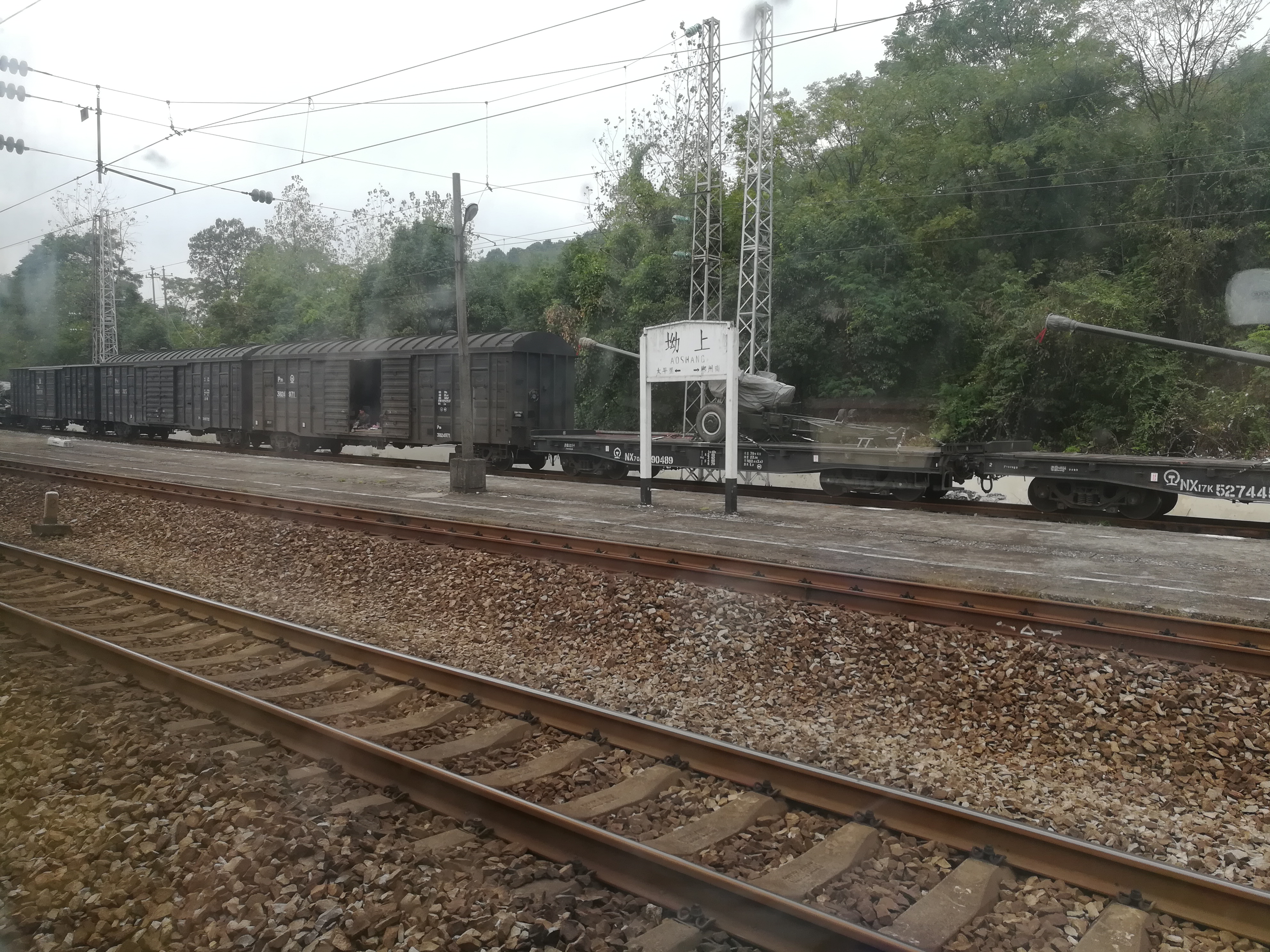 Aoshang Railway Station is a railway station of Beijing–Guangzhou Railway. The station is located in Aoshang Town, Chenzhou, Hunan, China. 中文（中国大陆）: 坳上火车站，位于湖南省郴州市坳上镇，是京广线的一个四等站，建于1936年。